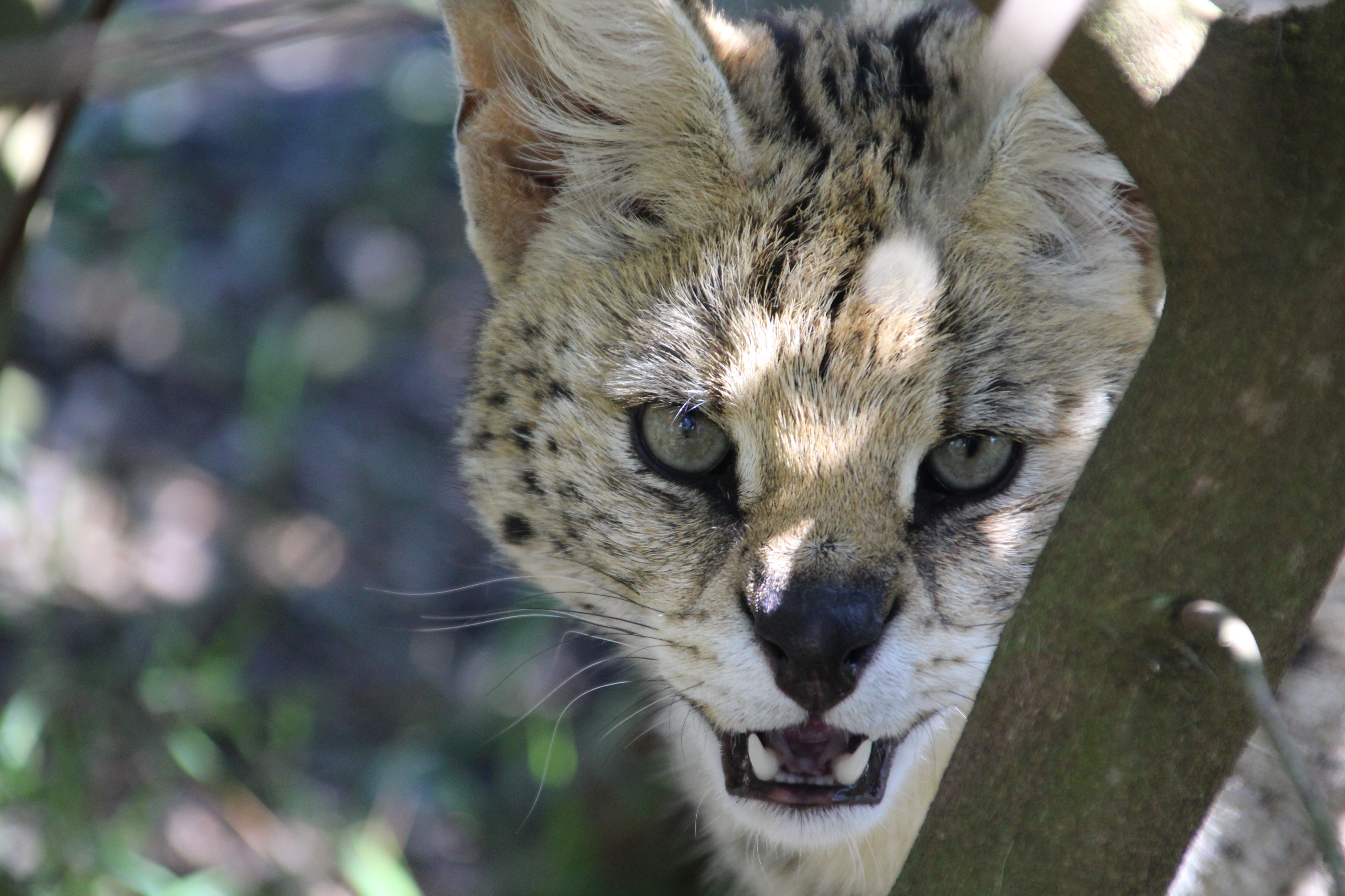 A Serval in South Africa